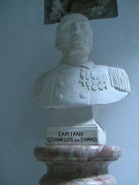 Staute of baron Giovanni Lupis or Luppis von Rammer in the Lupis Family Palace in Italy